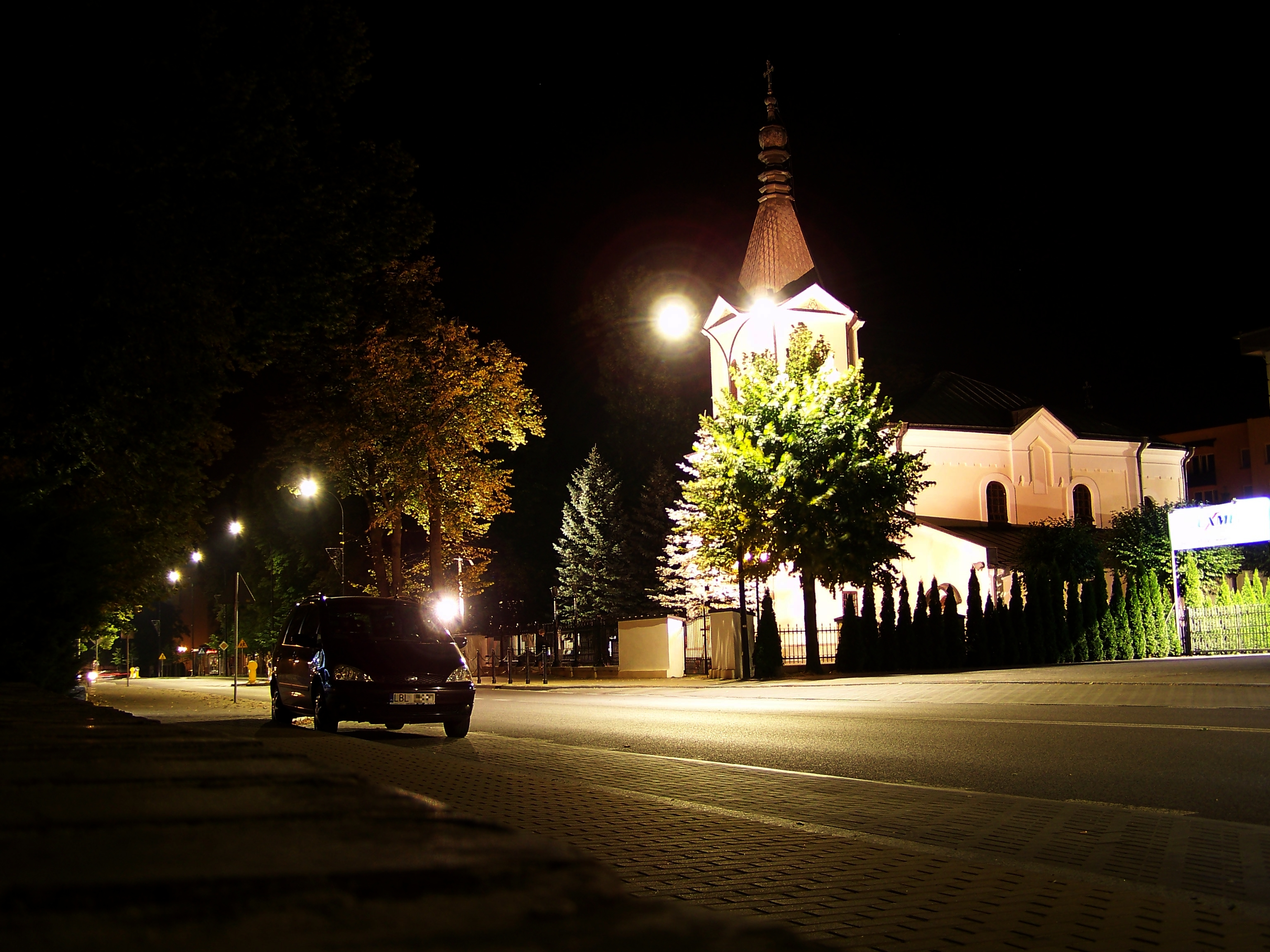 Tadeusz Kościuszko Street in Biłgoraj (Poland), view of St. George church.